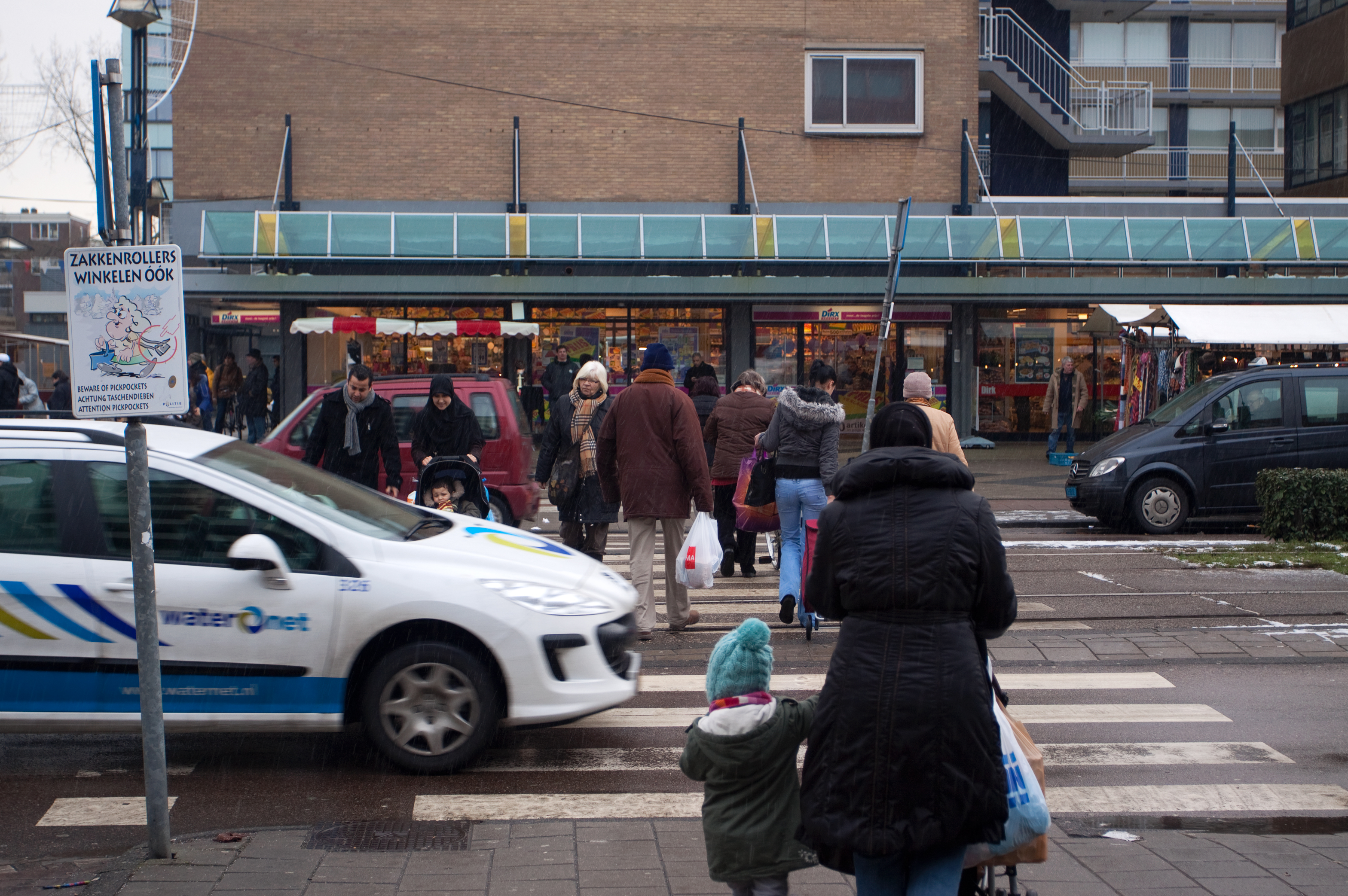 Pedestrians crossing a road in a suburb of Amsterdam, the Netherlands.